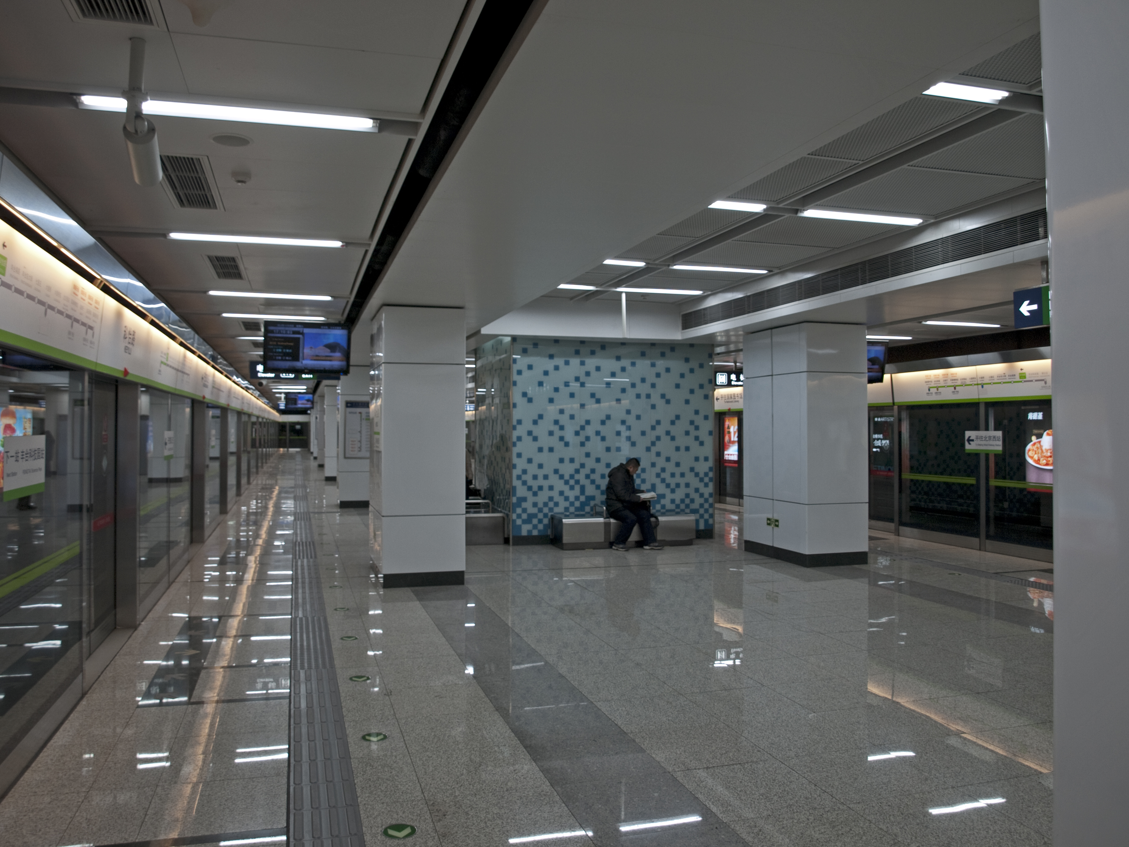 Keyilu station, Beijing Subway